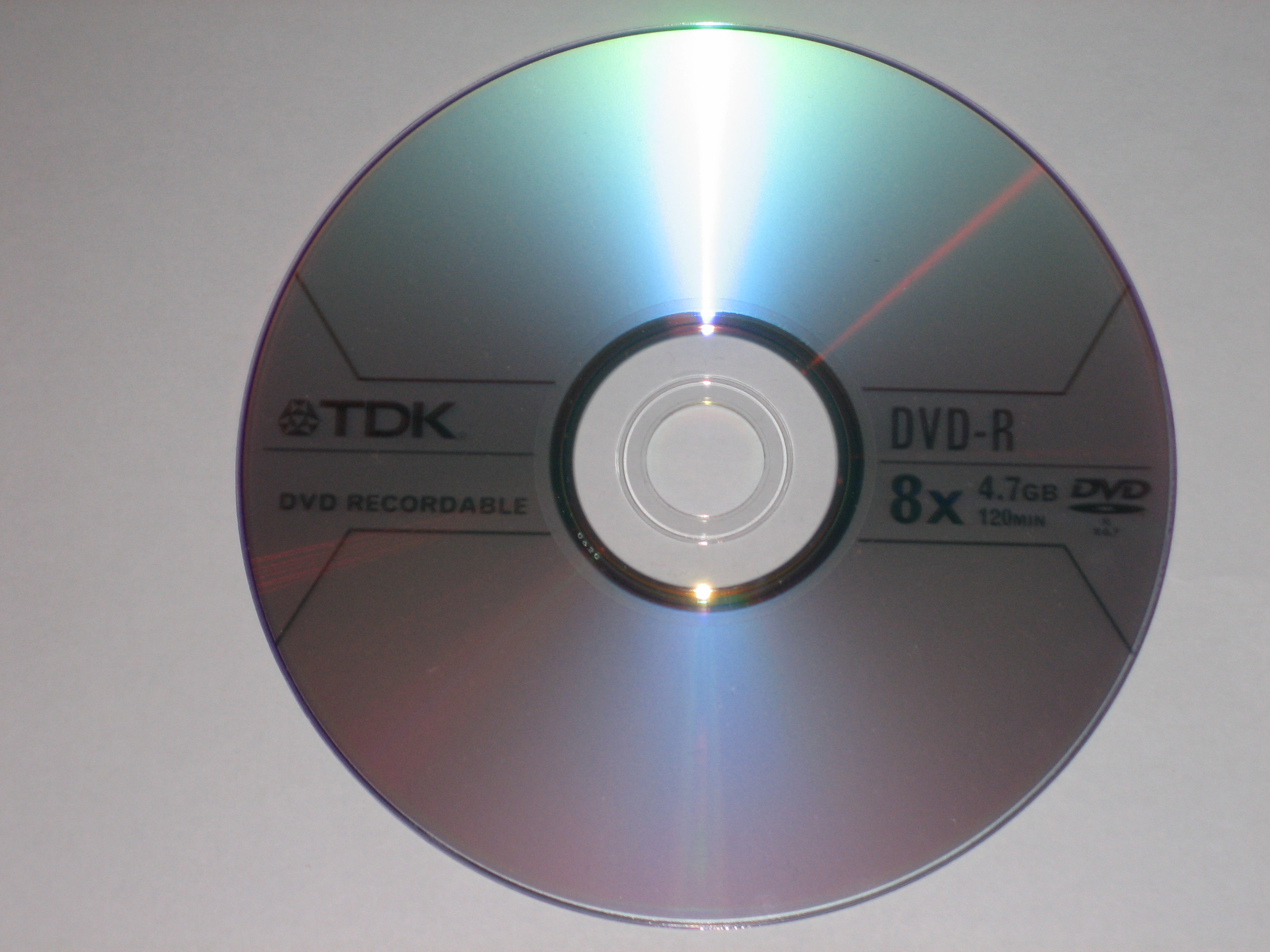 TDK 8x DVD-R